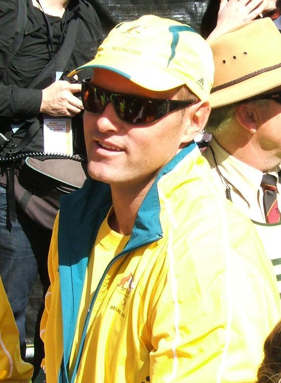 Andrew Schacht at the 2008 Olympic homecoming parade in Adelaide